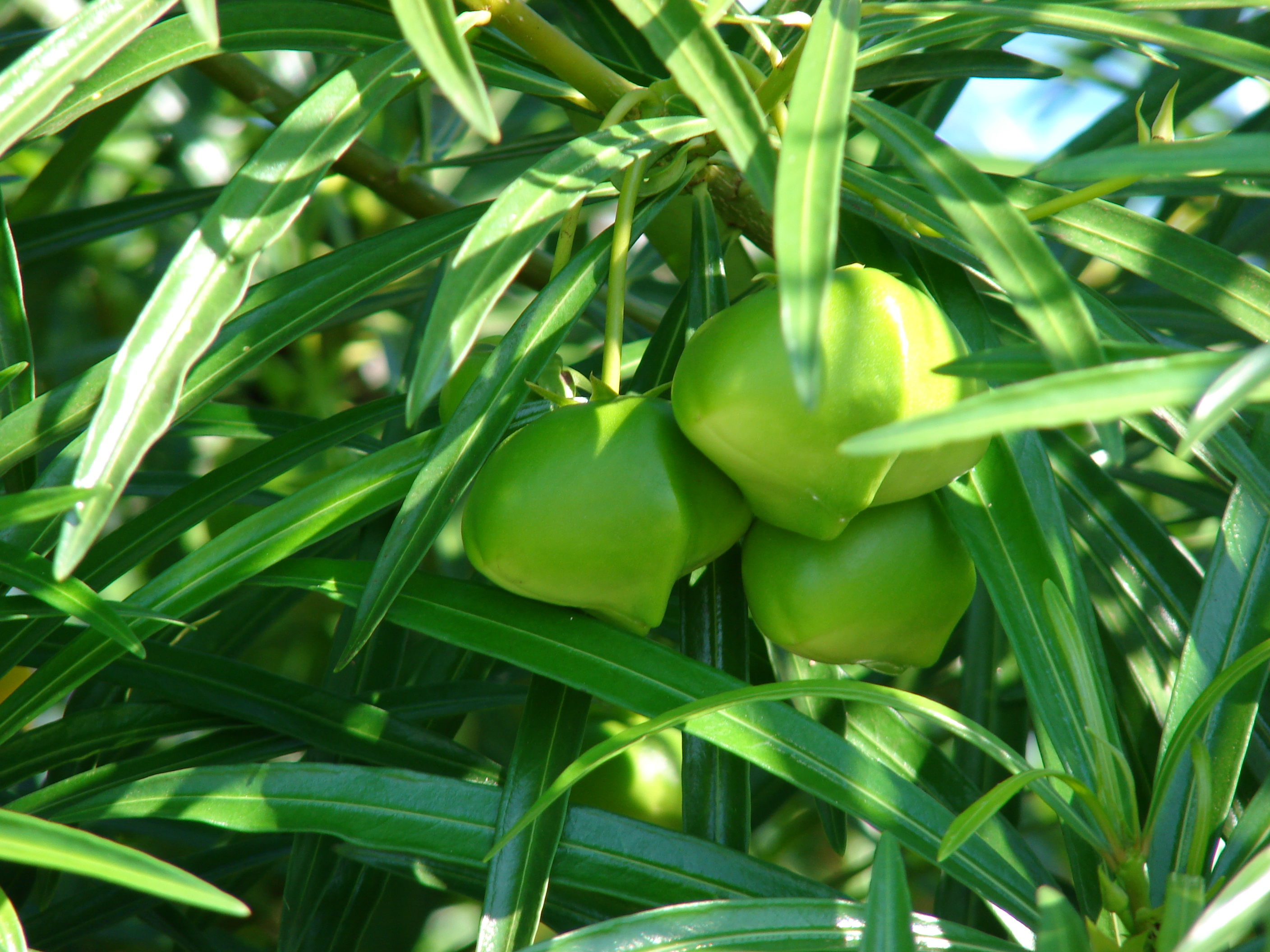 Thevetia peruviana (fruit). Location: Maui, Kihei